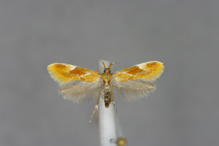 Epicallima formosella